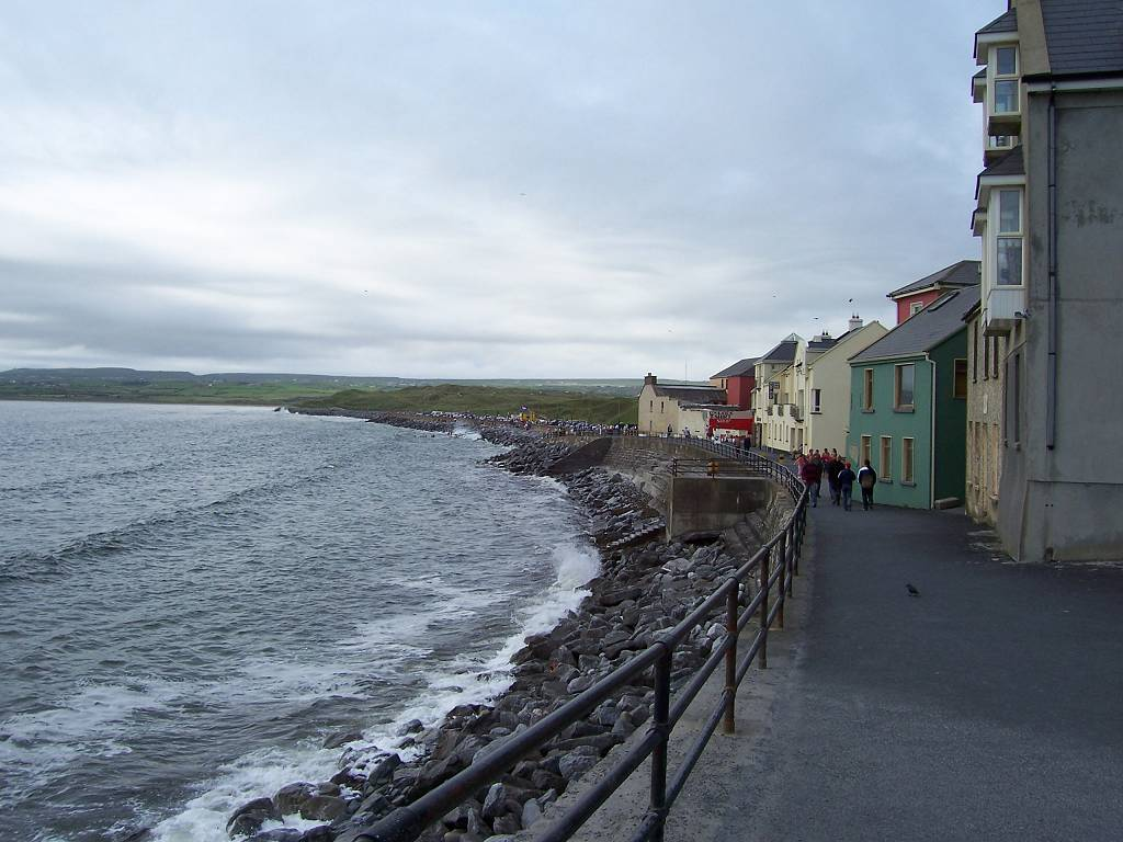 A typical scene in Lahinch, County Clare, Ireland.